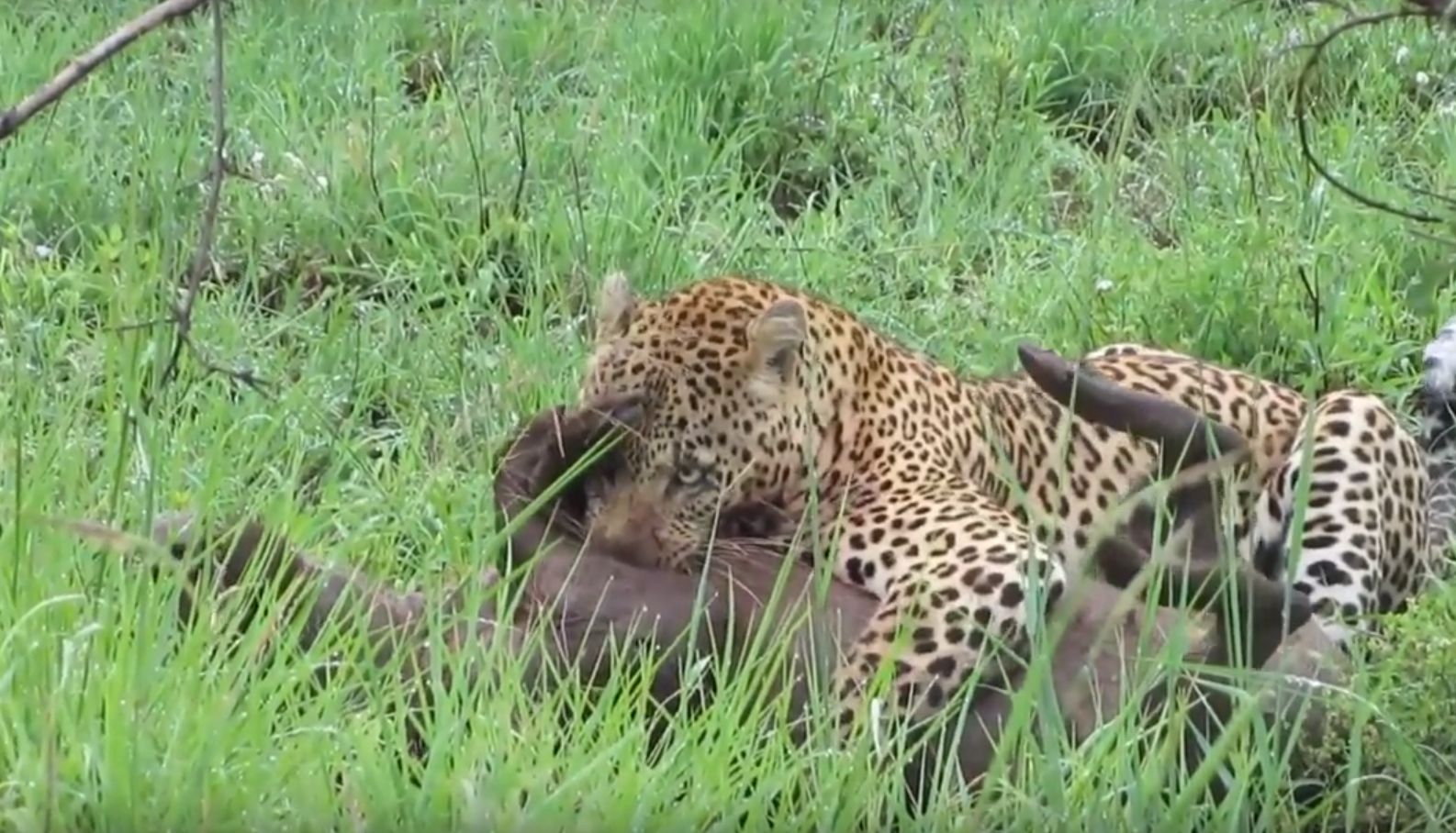 Leopard killing warthog at bridge near Bobbejaankrans